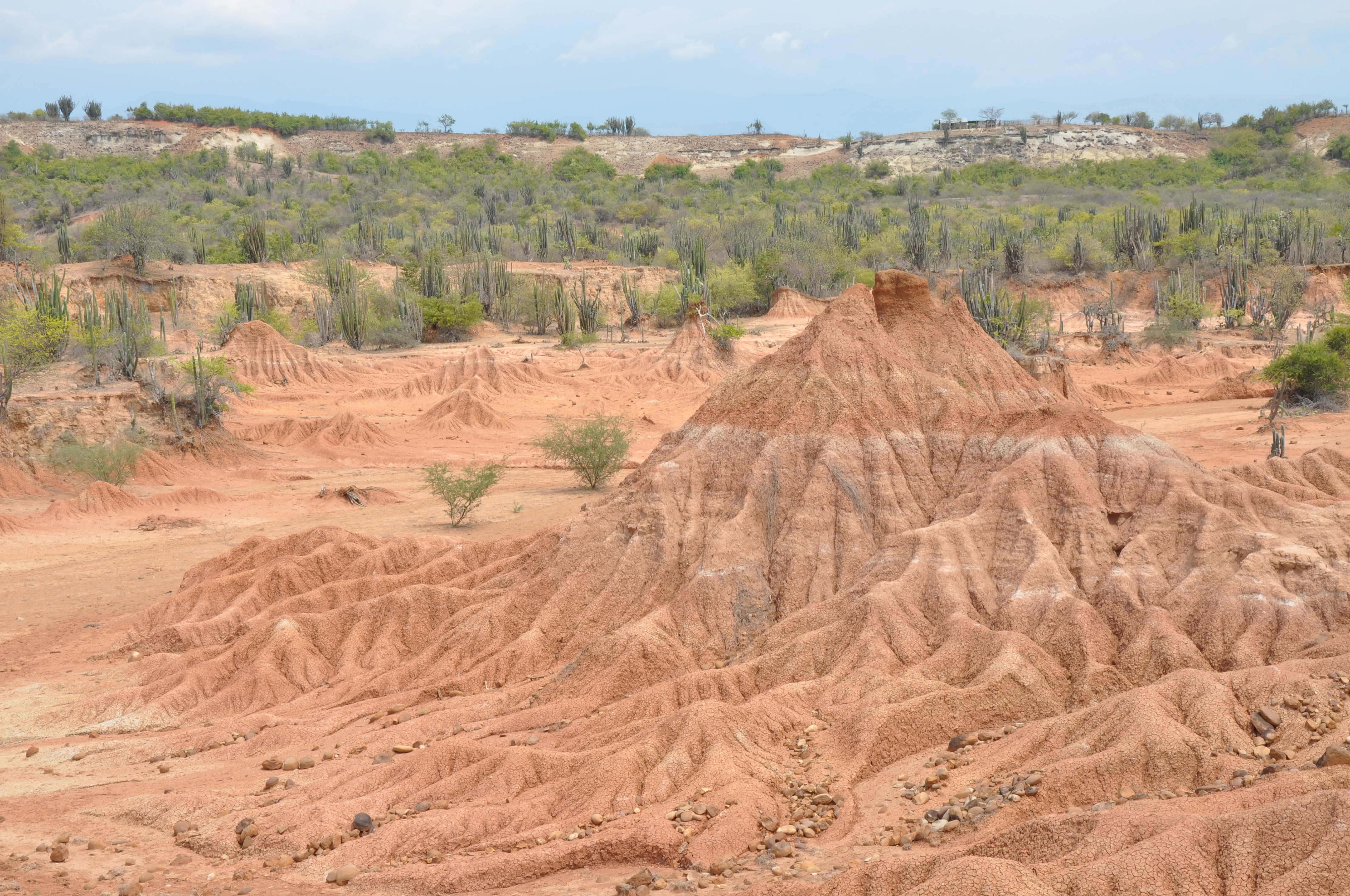 The Tatacoa Desert (English for Desierto de la Tatacoa) is a desert located in the Colombian Department of Huila, some 38 km from the city of Neiva. There are fossil remains in the area making it a tourist destination also for astronomical observation. The Tatacoa covers a total area of 300 km² mostly covering the municipality of Villavieja. The Tatacoa is home to several endemic species of spiders, snakes, scorpions, lizzards, eagles among others.